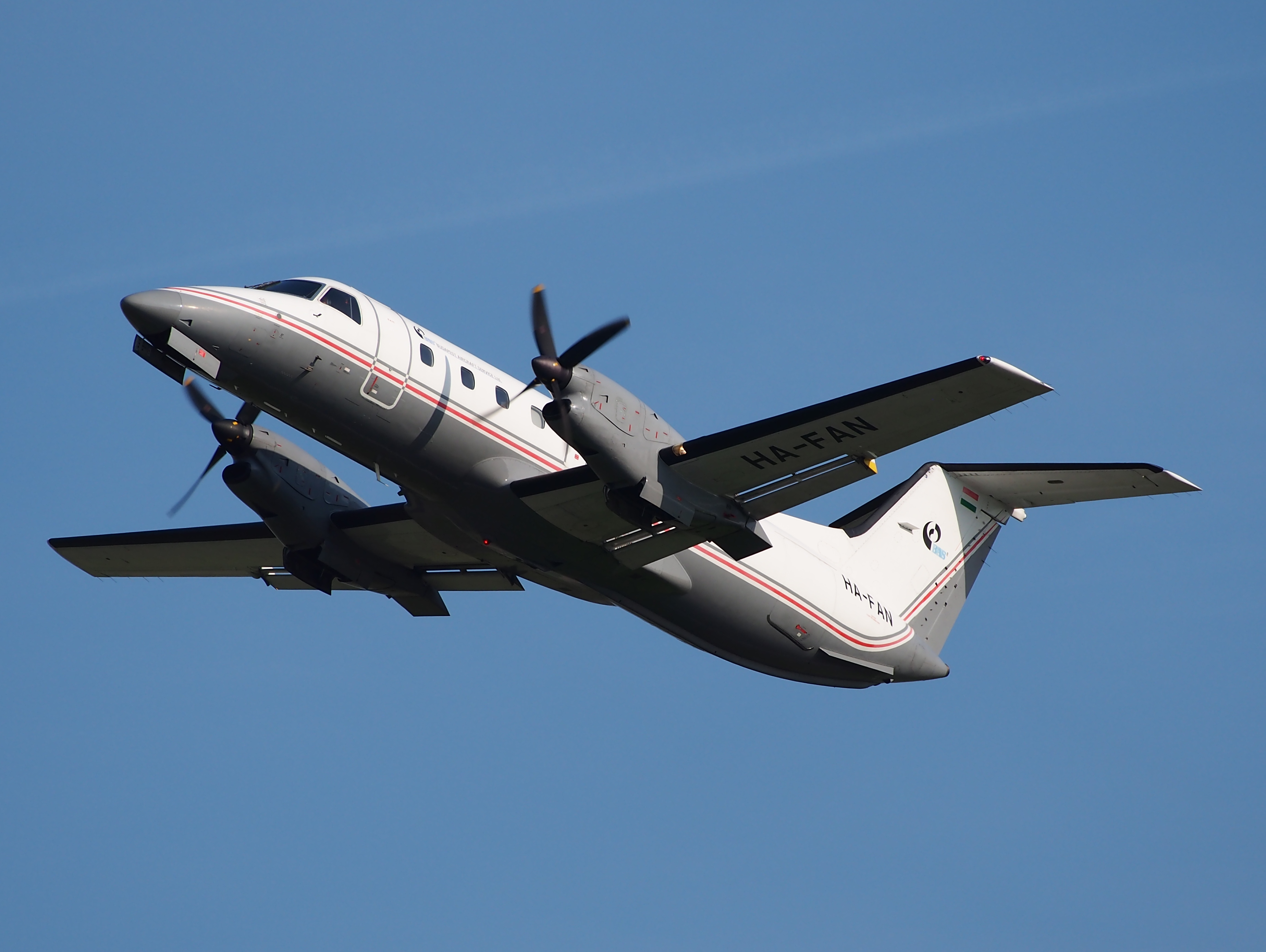 Photographed at Schiphol (AMS - EHAM), The Netherlands.